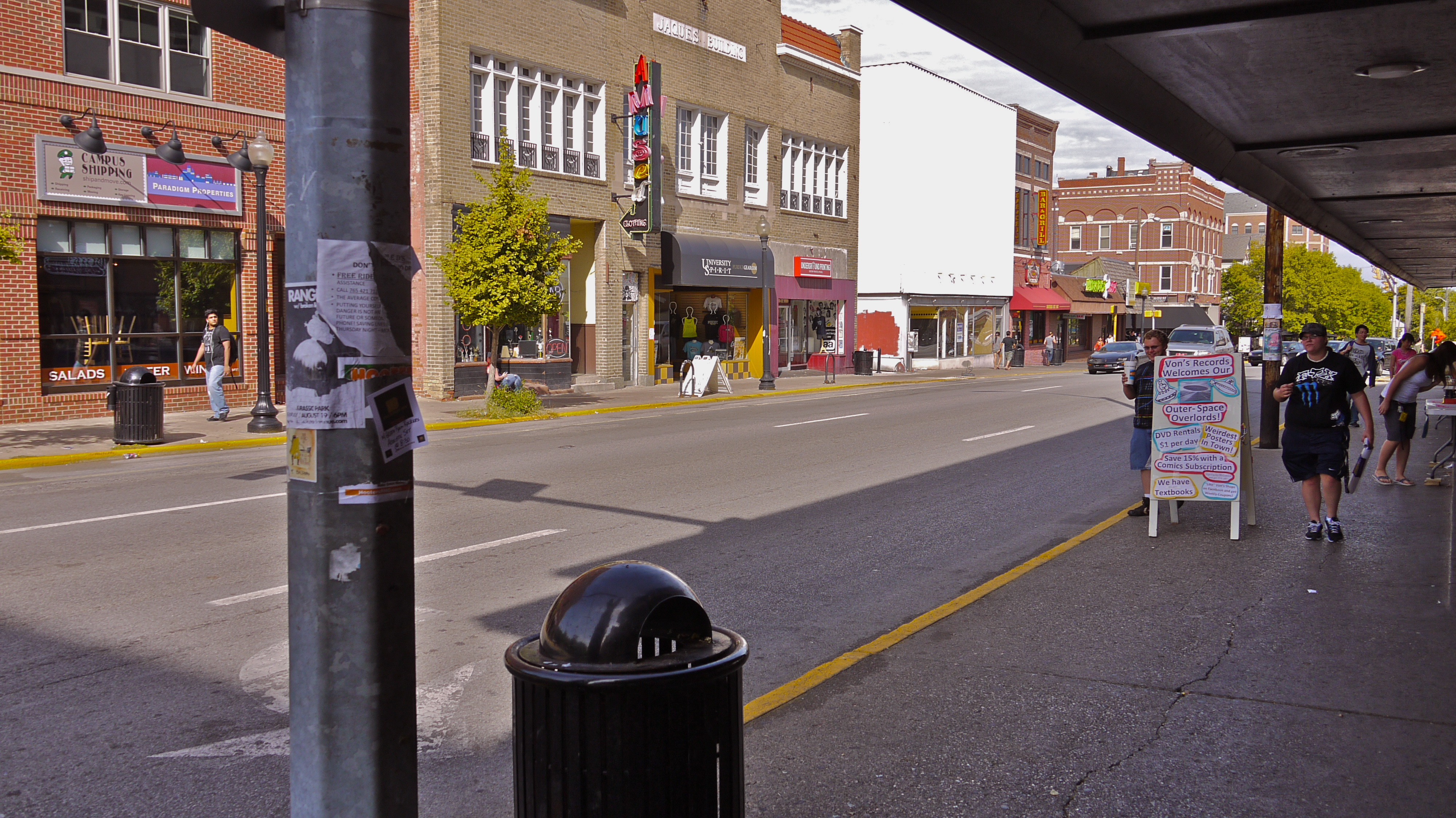 the village on a fall day